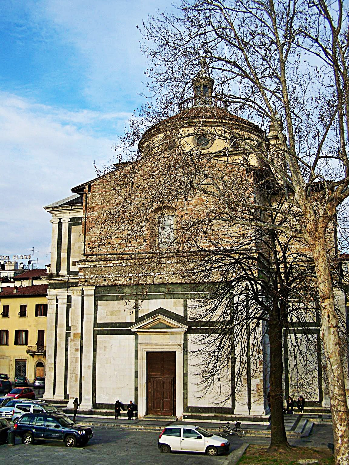 the church